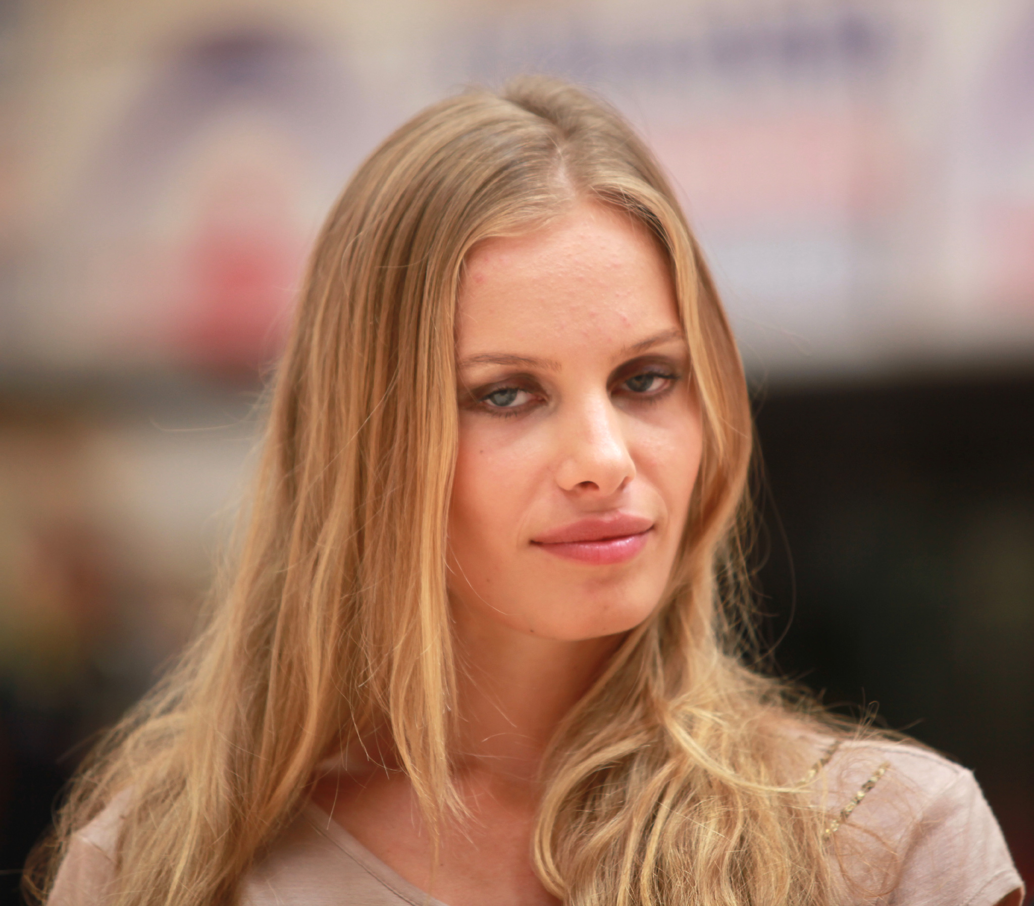 Jana Beller, "Germany's next Topmodel", on August 20th, 2011 in Ehingen (Germany).